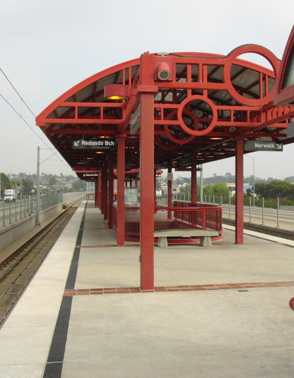 The Crenshaw station on the Los Angeles Metro's Green Line